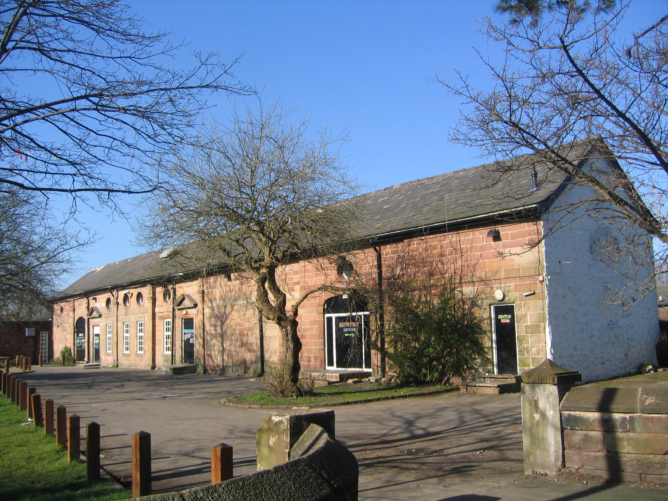 Photograph taken by me on 14 March 2007. Currently the function room of the Tricorn public house, formerly the stables of Hallwood.